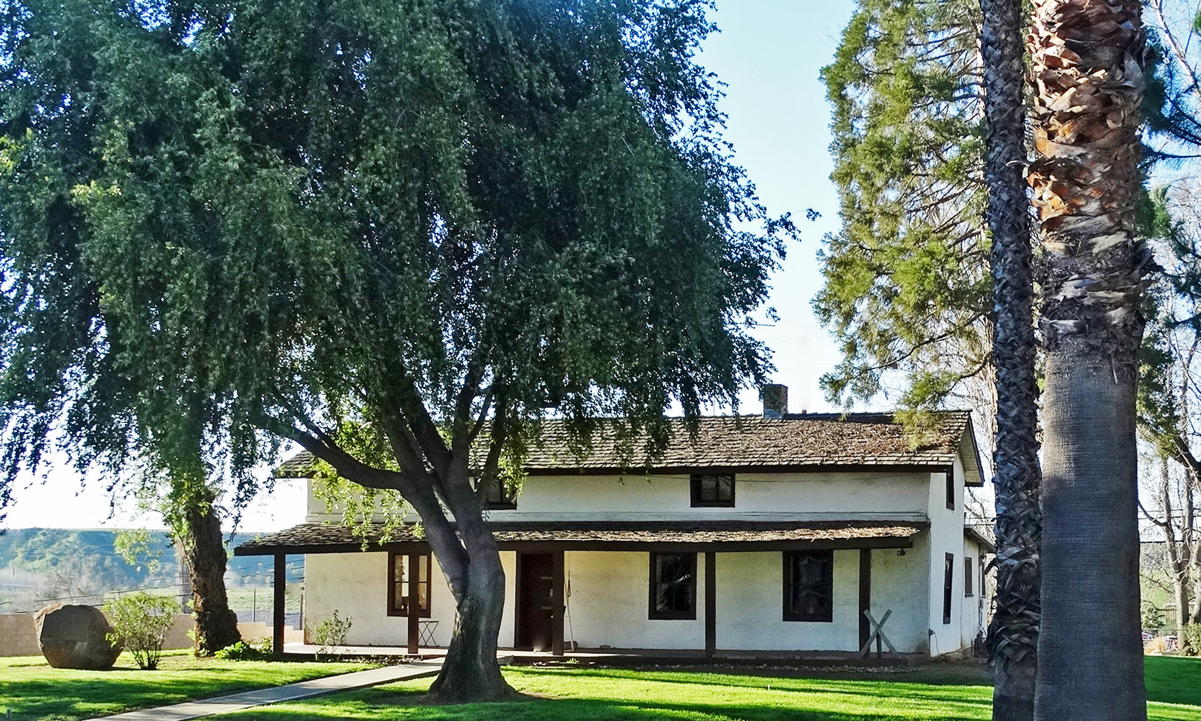 (1 in a multiple picture album) The Yucaipa Adobe was restored by and is now part of the San Bernardino County Museum Association. It is one of the oldest homes in the country. It's setting is on what once was the huge ranchero of the Lugo family when Spain controlled the southwest part of the United States.